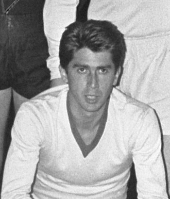 Mircea Dridea in 1966